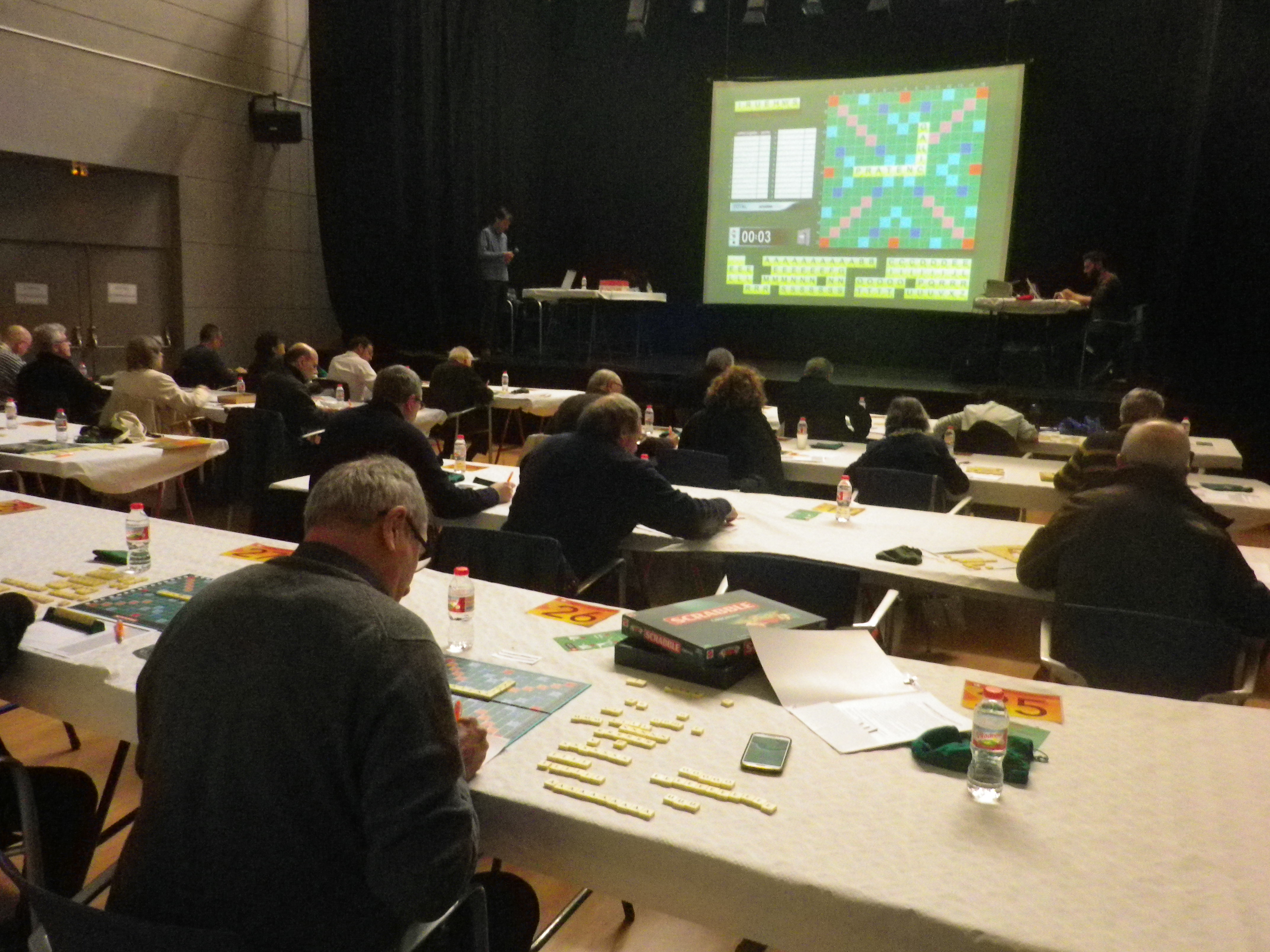 Duplicate Scrabble game in Catalan Tournament